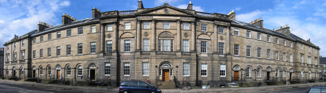 The north side of Charlotte Square, Edinburgh. Designed by architect Robert Adam and completed 1800. The buildings shown include Bute House, official residence of the First Minister of Scotland. Taken by supergolden on 25th March 2006. Montage created using autostitch.